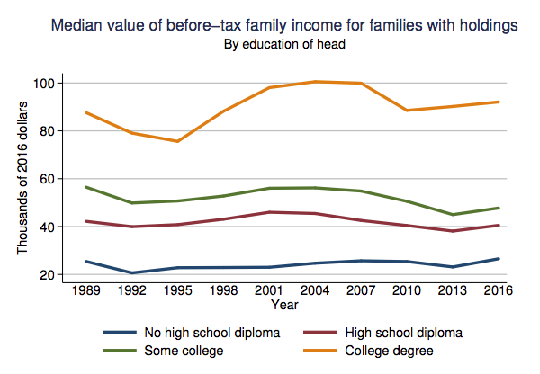 Median income of U.S. families by education of the head of household, 1989-2016